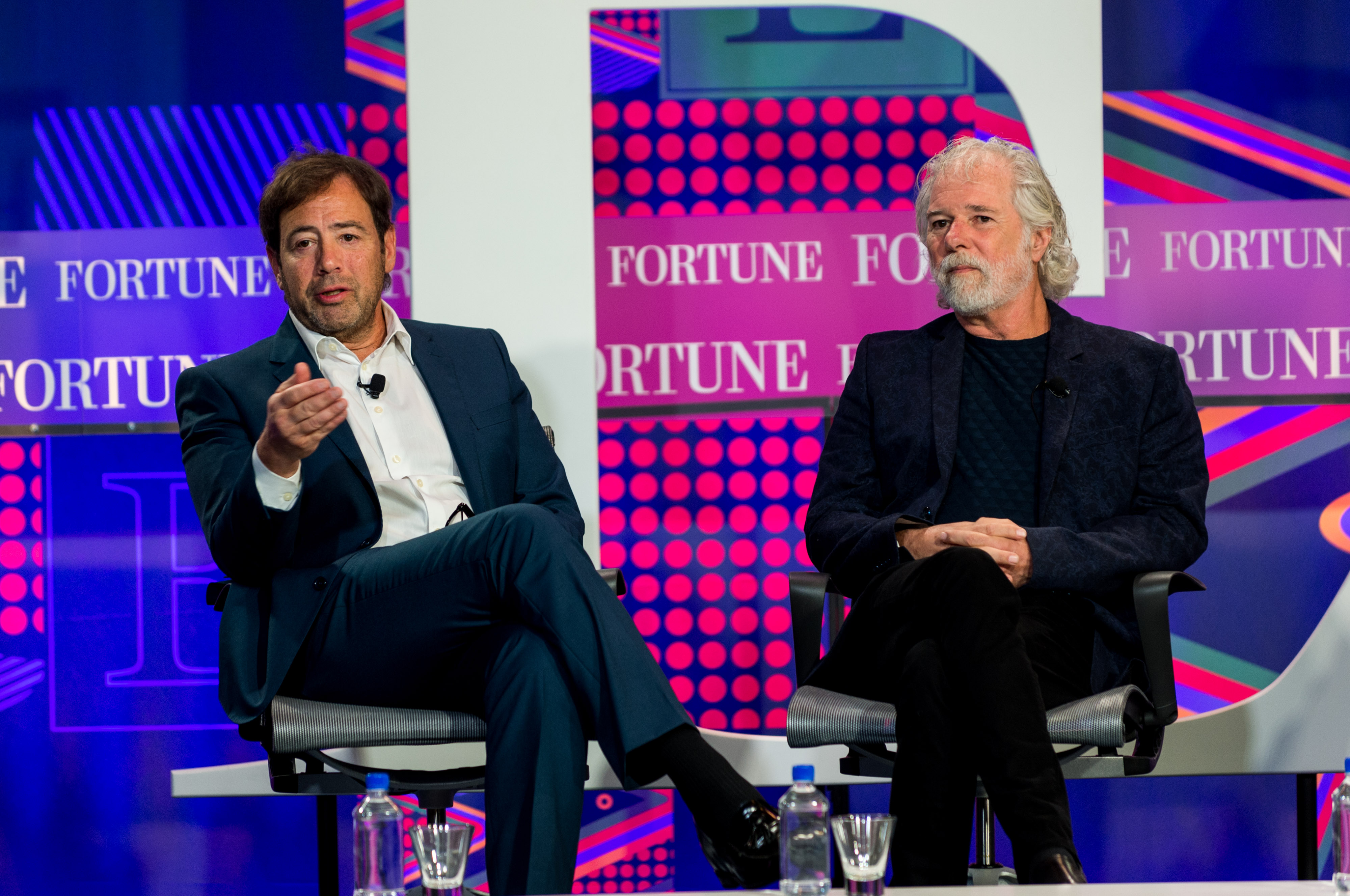 Mother Nature Network co-founders Joel Babbit (left) and Chuck Leavell speak at the 2015 Fortune Brainstorm E in Austin, Texas.